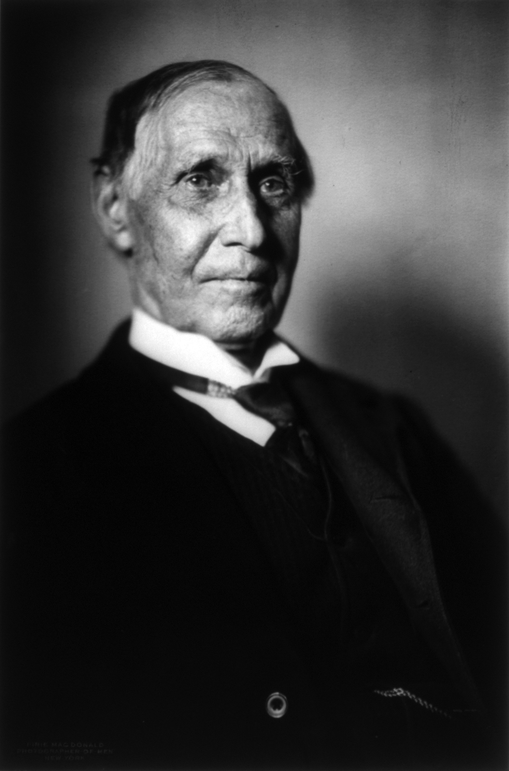 Russell Sage, half length portrait, facing left